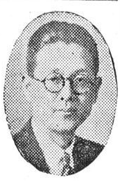 4th Vicepresident of South Koreas Chang Myon(1938)